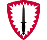 Special Operations Command, Europe (U.S. Army Element) Shoulder Sleeve Insignia